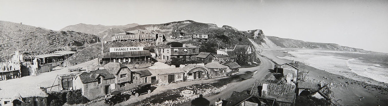 Original photo of Inceville, California